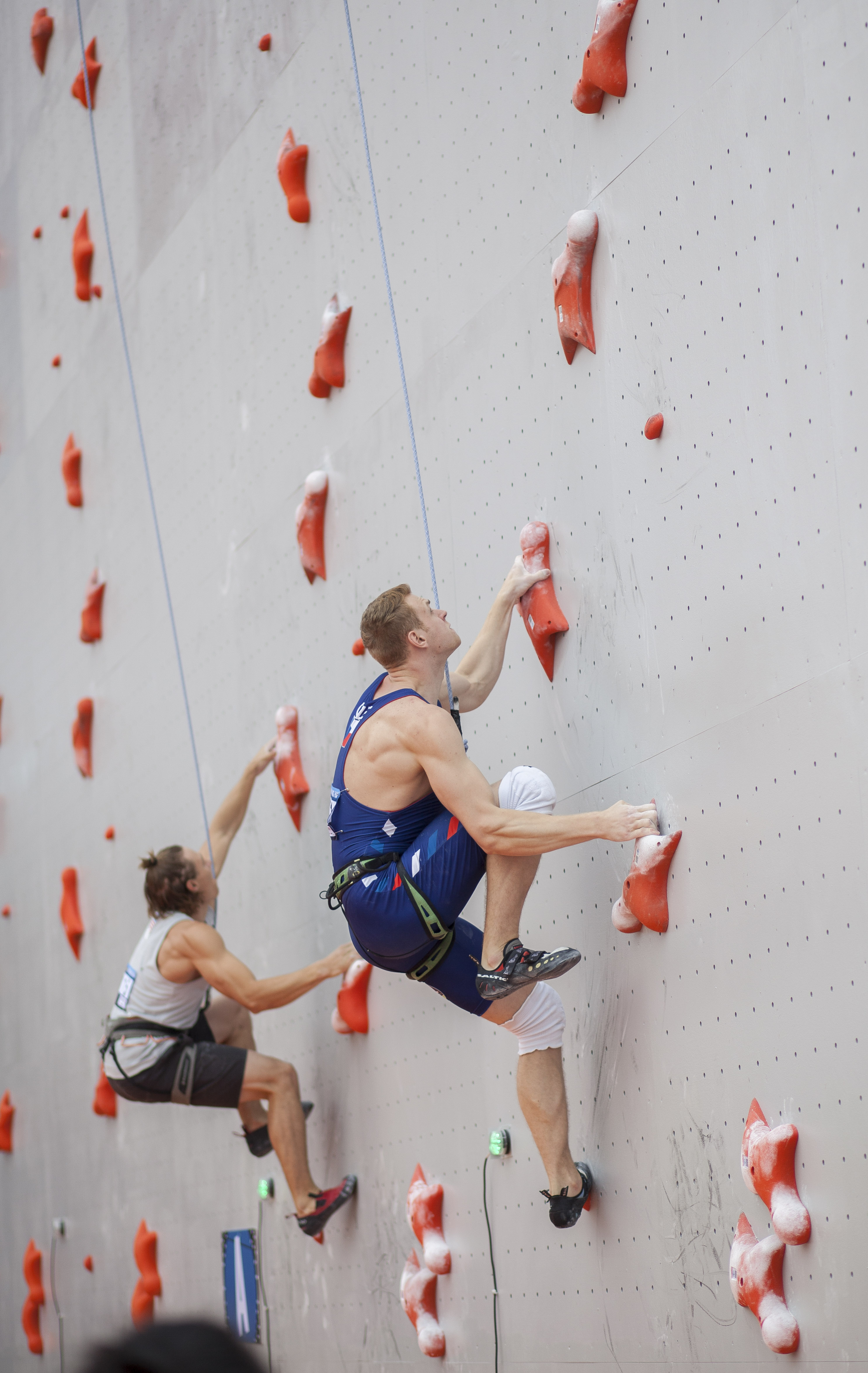 Jan Kriz at Shanghai 2016